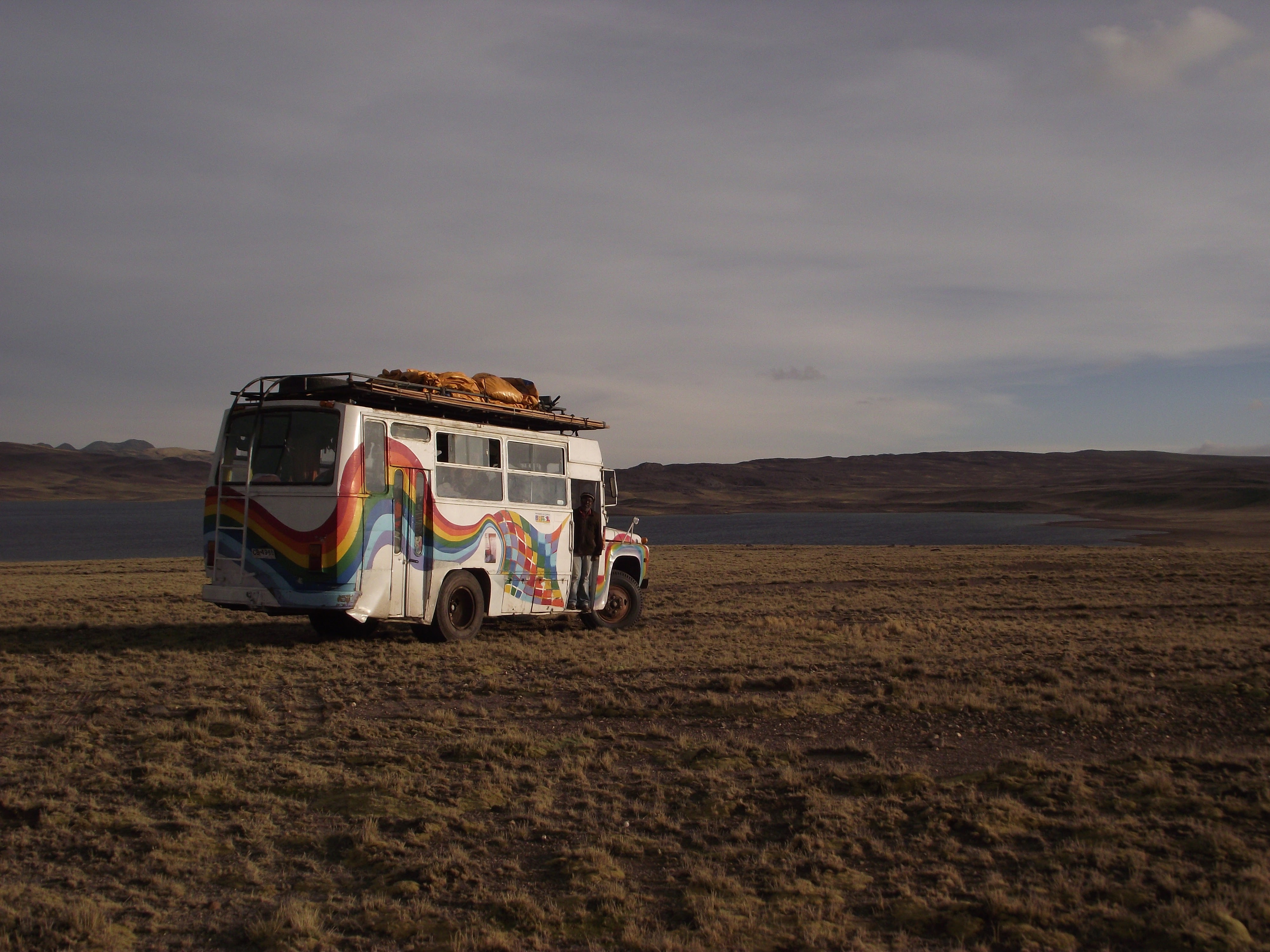 Rainbow Peace Caravan on the road between Nazca and Cuzco.